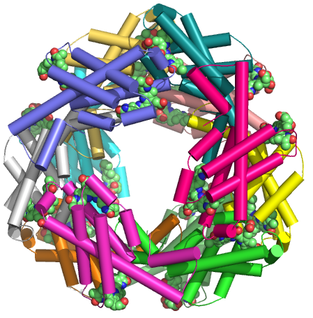 12mer assembly of phycocyanin